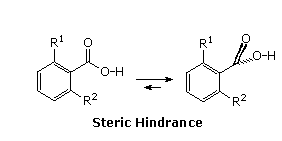 The increased acidity of ortho-substituted benzoic acids is attributed to steric hindrance that forces the carboxyl group to twist out of the plane of the benzene ring. The inductive character of the phenyl group does not change with such twisting, but resonance ( conjugative electron donation ) requires a coplanar relationship.